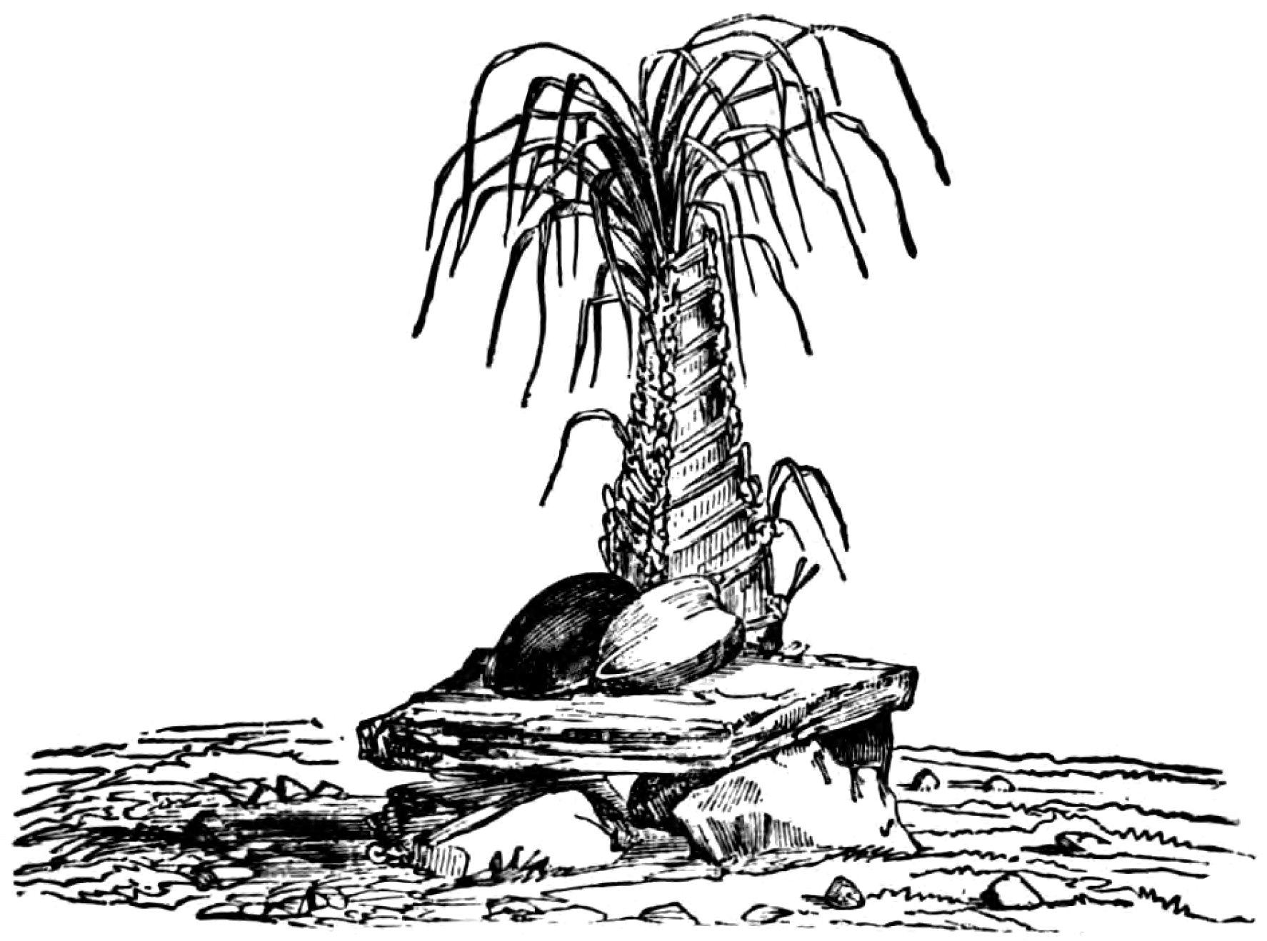 Illustration from the book "Twenty years before the mast" by Charles Erskine. Page 199.